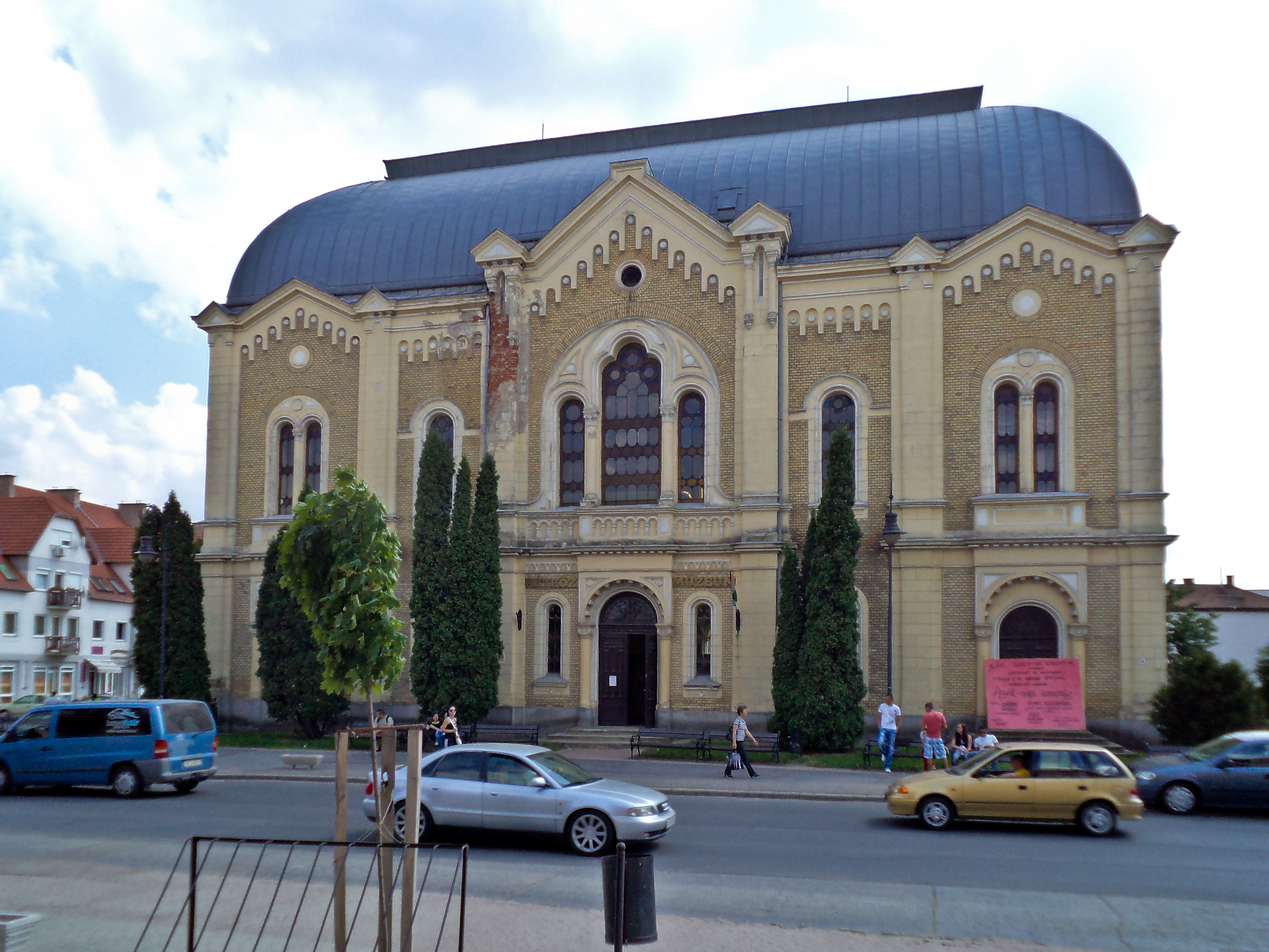 Rétköz Museum, Kisvárda. The building used to be a synagogue.